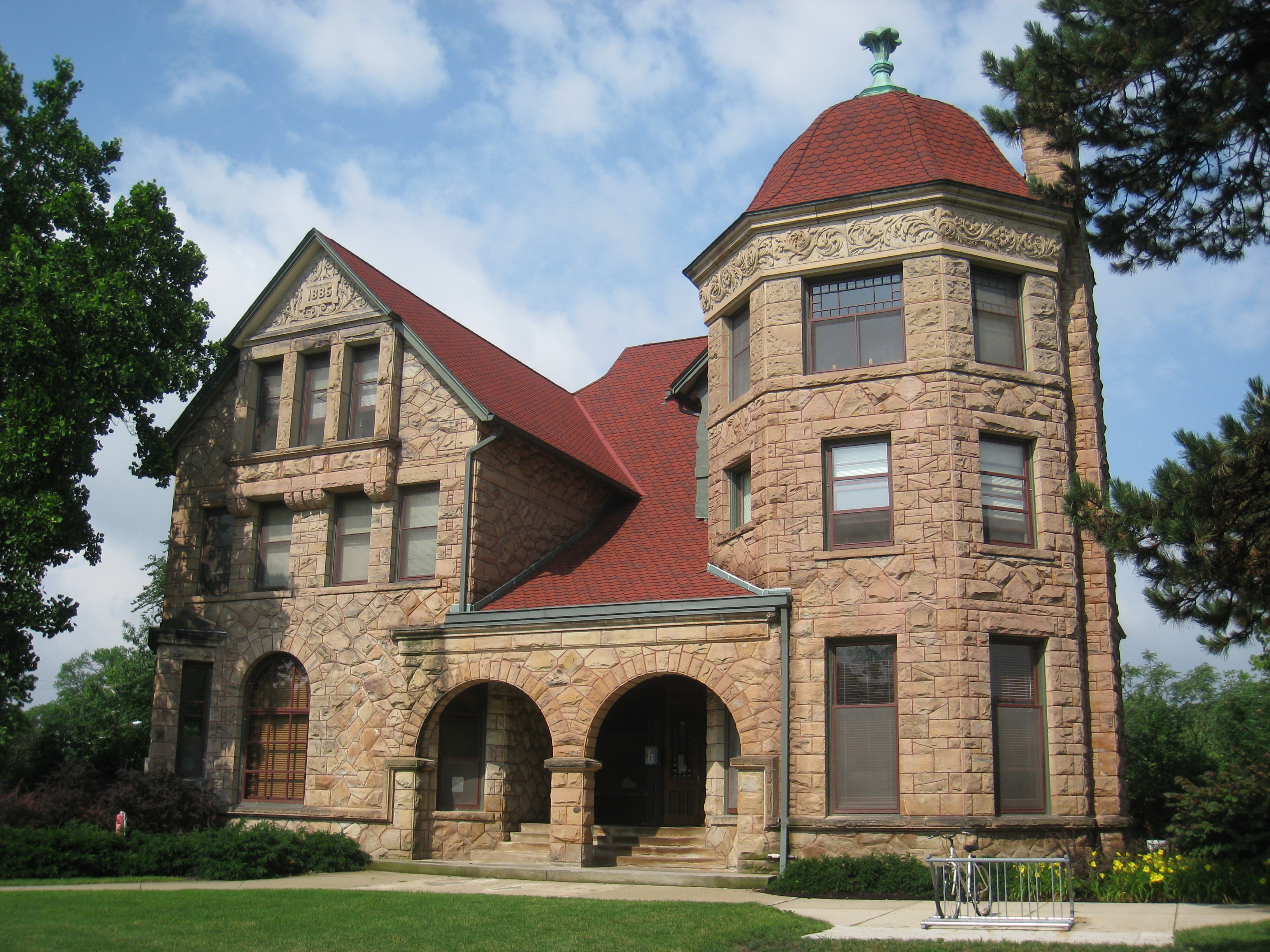 Baldwin Cottage, Oberlin College, Oberlin, Ohio, USA. Architects Weary & Kramer, 1885